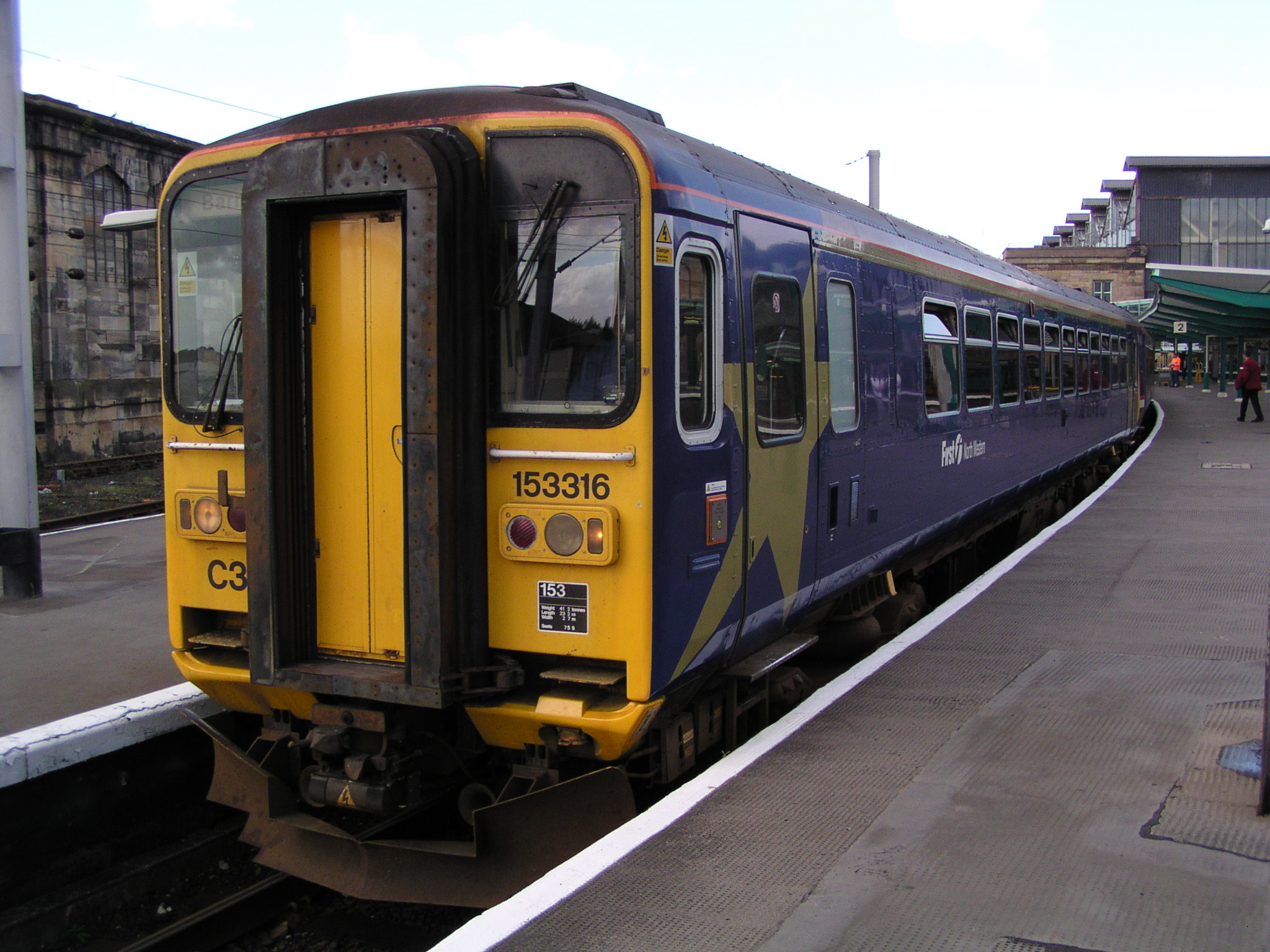 BR Class 153, no. 153316, at Carlisle, on 27th August 2004. This unit is operated by First North Western and is painted in 'North Western Trains' livery.